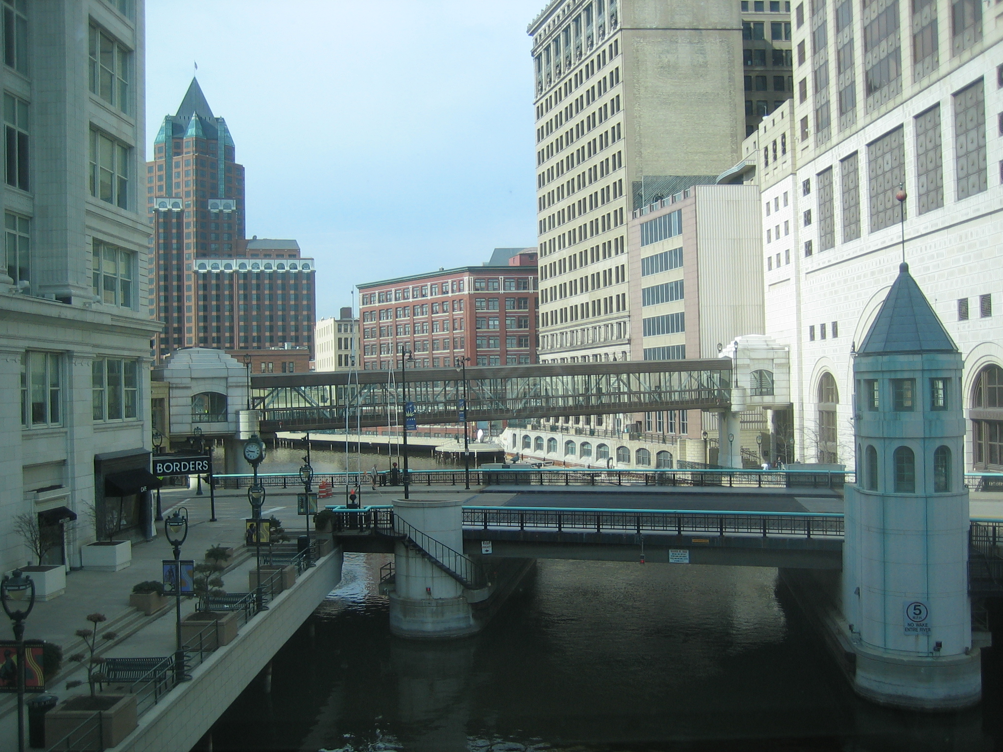 The Milwaukee River crossing Wisconsin Avenue in downtown Milwaukee.